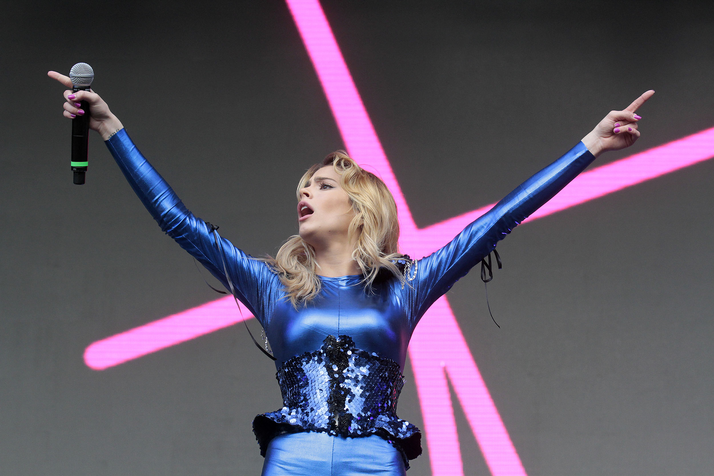 Martina Stoessel performing on May 2, 2014 during the free concert "Juntada Tinista" in Buenos Aires.